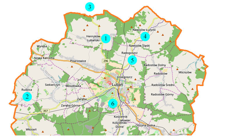 Location map with former properties of Lauban Abbey of the Order of St Mary Magdalene (1-Katholisch Hennersdorf now Henryków Lubański; 2-Pfaffendorf now Rudzica; 3-Günthersdorf now Godzieszów; 4-Sächsisch Haugsdorf now Nawojów Łużycki; 5-Wünschendorf now Radogoszcz; 6-Kerzdorf now Księginki and part of Lubań)